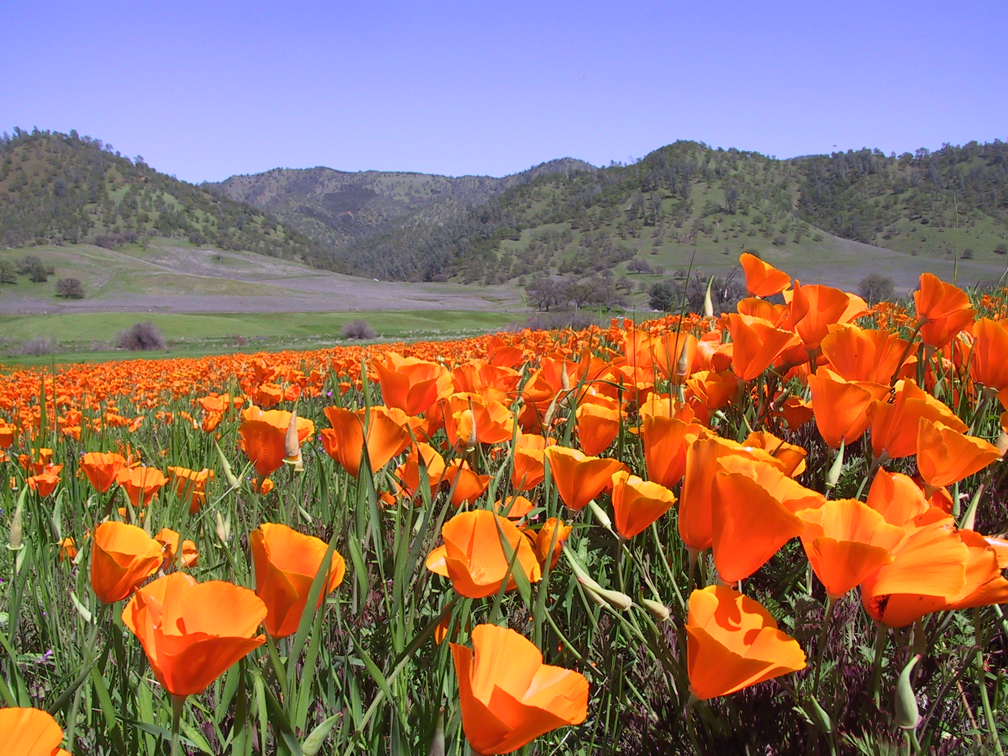 President Obama signs proclamation declaring the Berryessa Snow Mountain National Monument in Northern California. Public lands managed by the Bureau of Land Management and Forest Service in the new National Monument are some of the most scenic and biologically diverse landscapes in northern California. They range from rolling, oak-studded hillsides to steep creek canyons and ridgelines with expansive views.